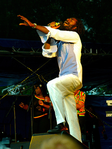 Reggae straight from Jamaica. Ilosaarirock in Joensuu. July 2006.